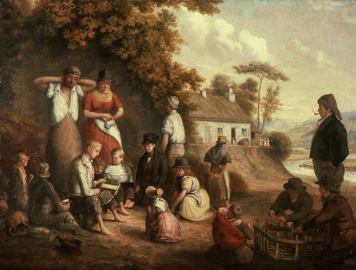 A painting from the Framed Works of Art collection at the National Library of wales.